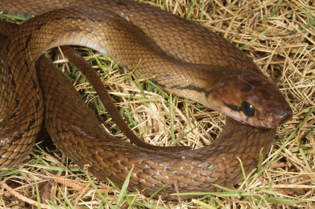 Coelognathus subradiatus. Male from Baucau town, Baucau District (USNM 573676).